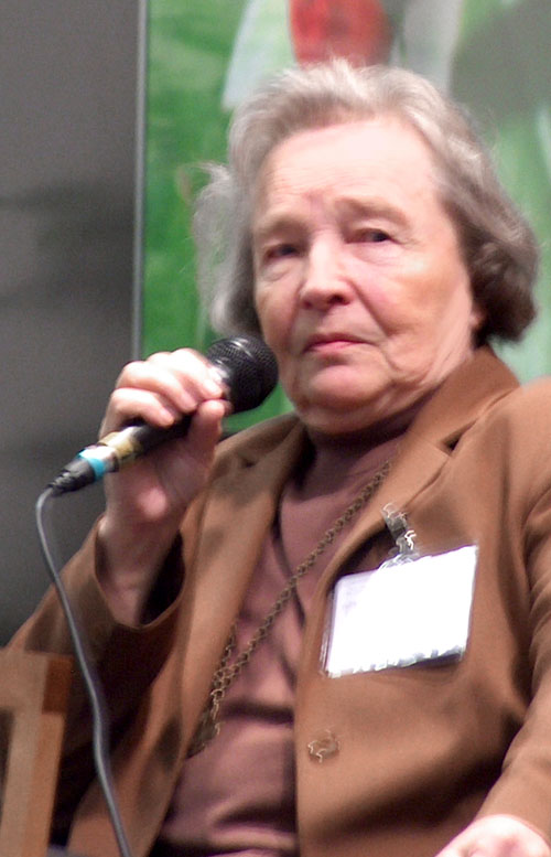 Finnish poet Eeva Kilpi at the Helsinki International Book Fair 2008